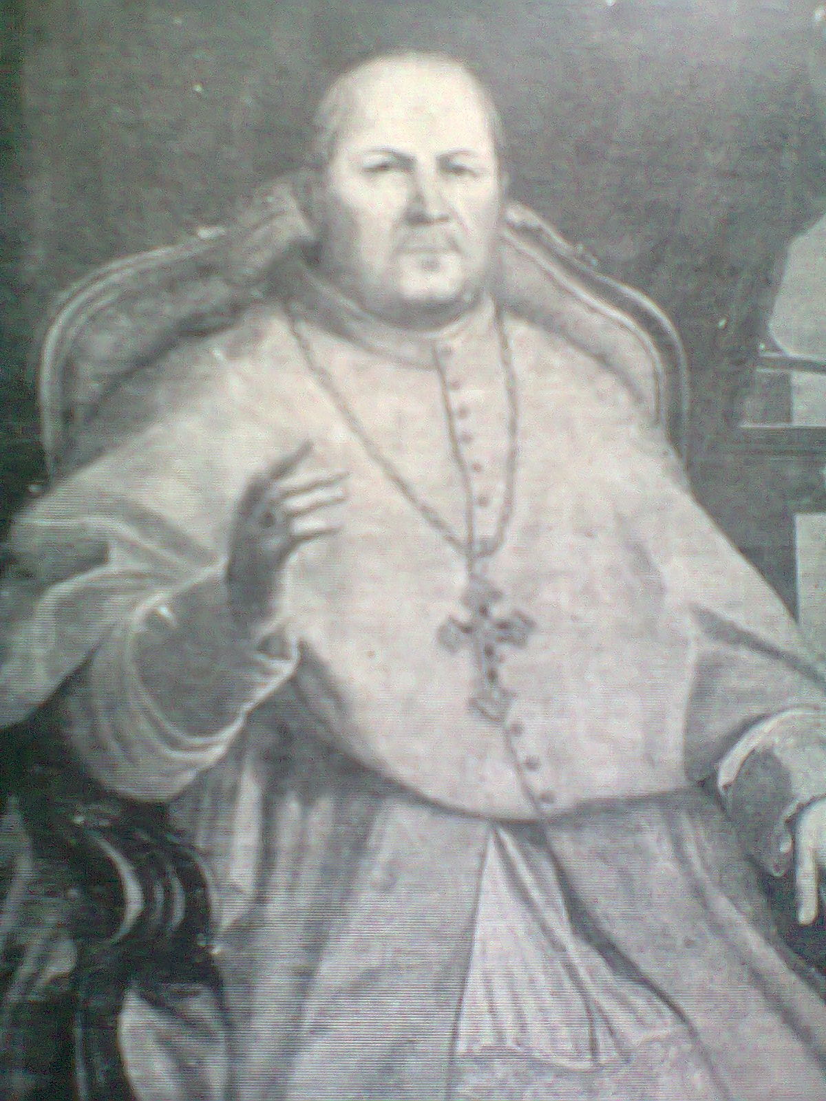 Bishop Michale Buttiegieg, 1st Bishop of Gozo.